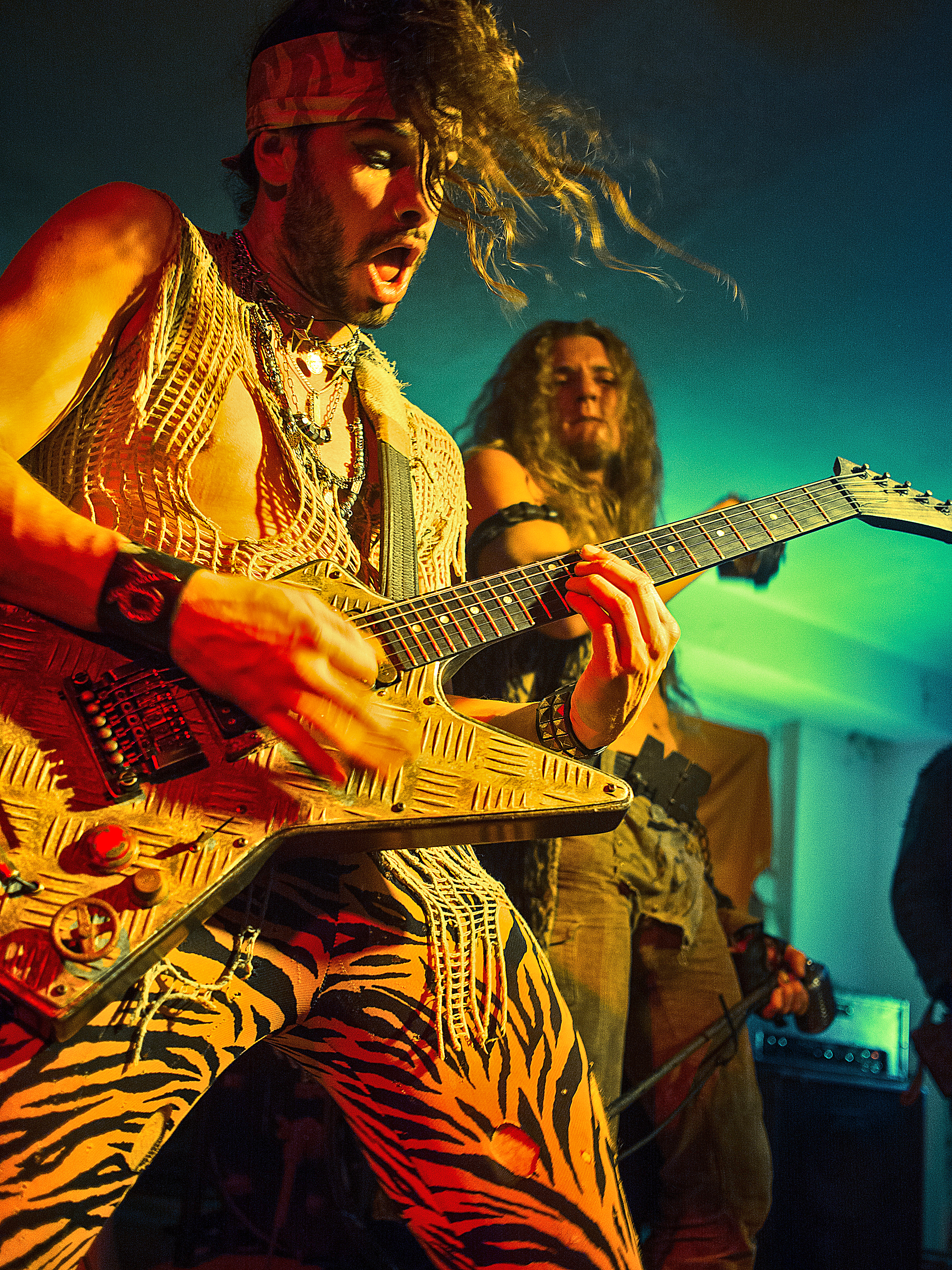 General MIDI (left) and General PAUSE (right) of the band MegaBosch on the FATE-Larp in june 2014